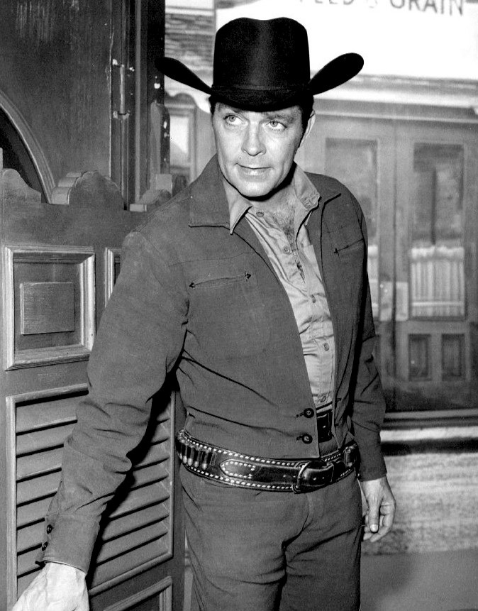 Photo of Dale Robertson from the television program Tales of Wells Fargo.